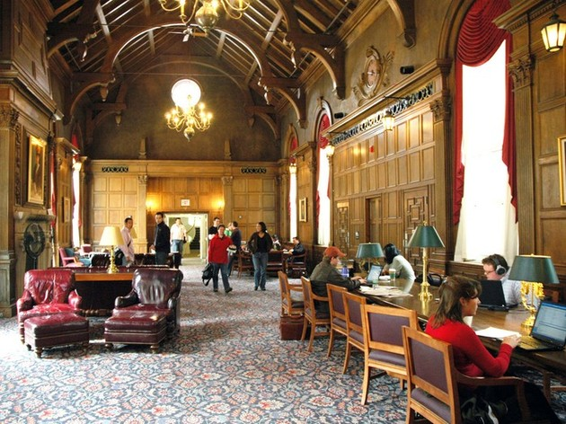 interior